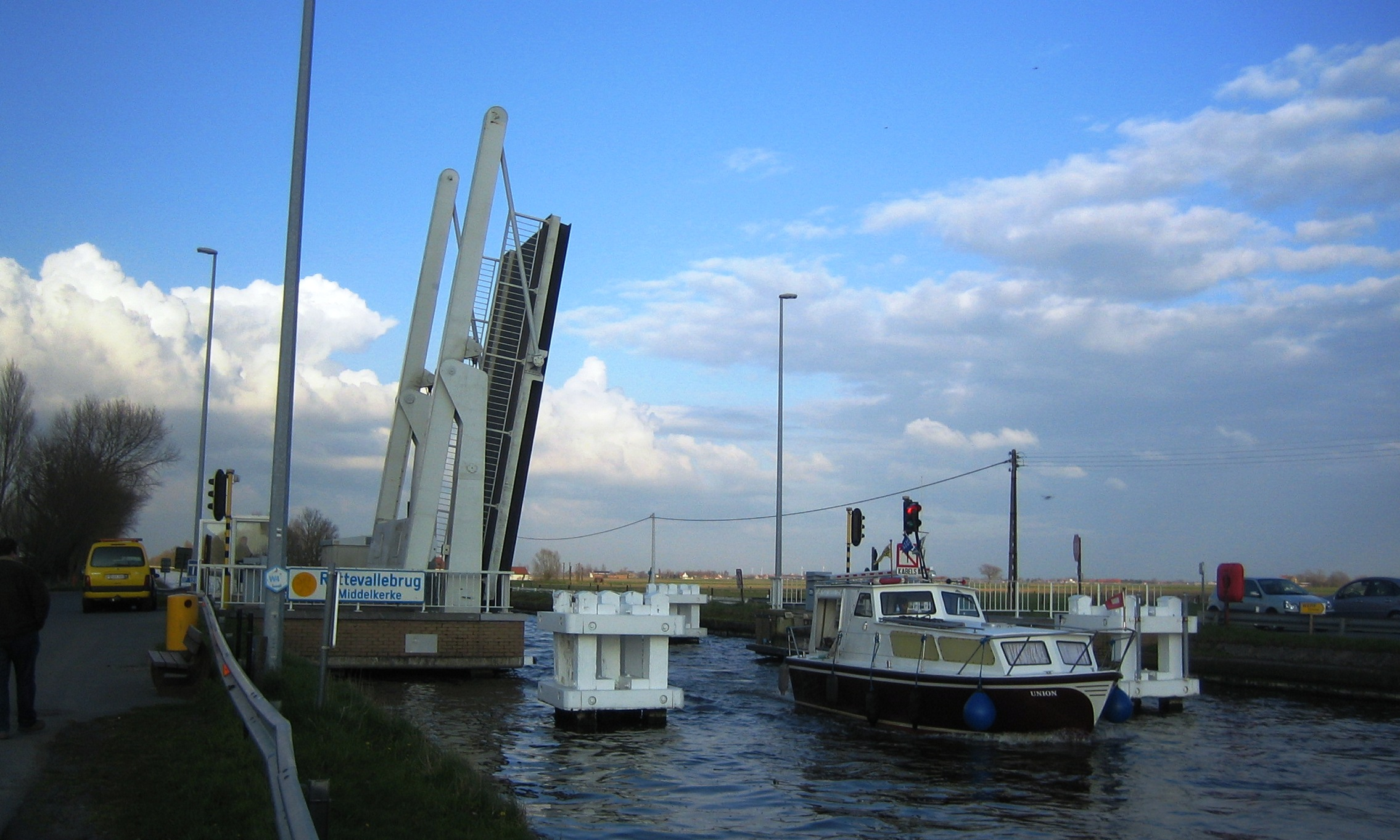 Rattevallebrug, modern draw bridge, at the Rattevalle in Slijpe, over the Canal Plassendale-Nieuwpoort between Nieuwpoort & Middelkerke. Slijpe, Middelkerke, West Flanders, Belgium